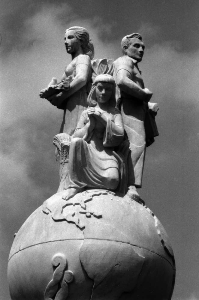 The Four Freedoms Monument by Adolph Wolter, White Chapel Cemetery, Troy, Michigan.